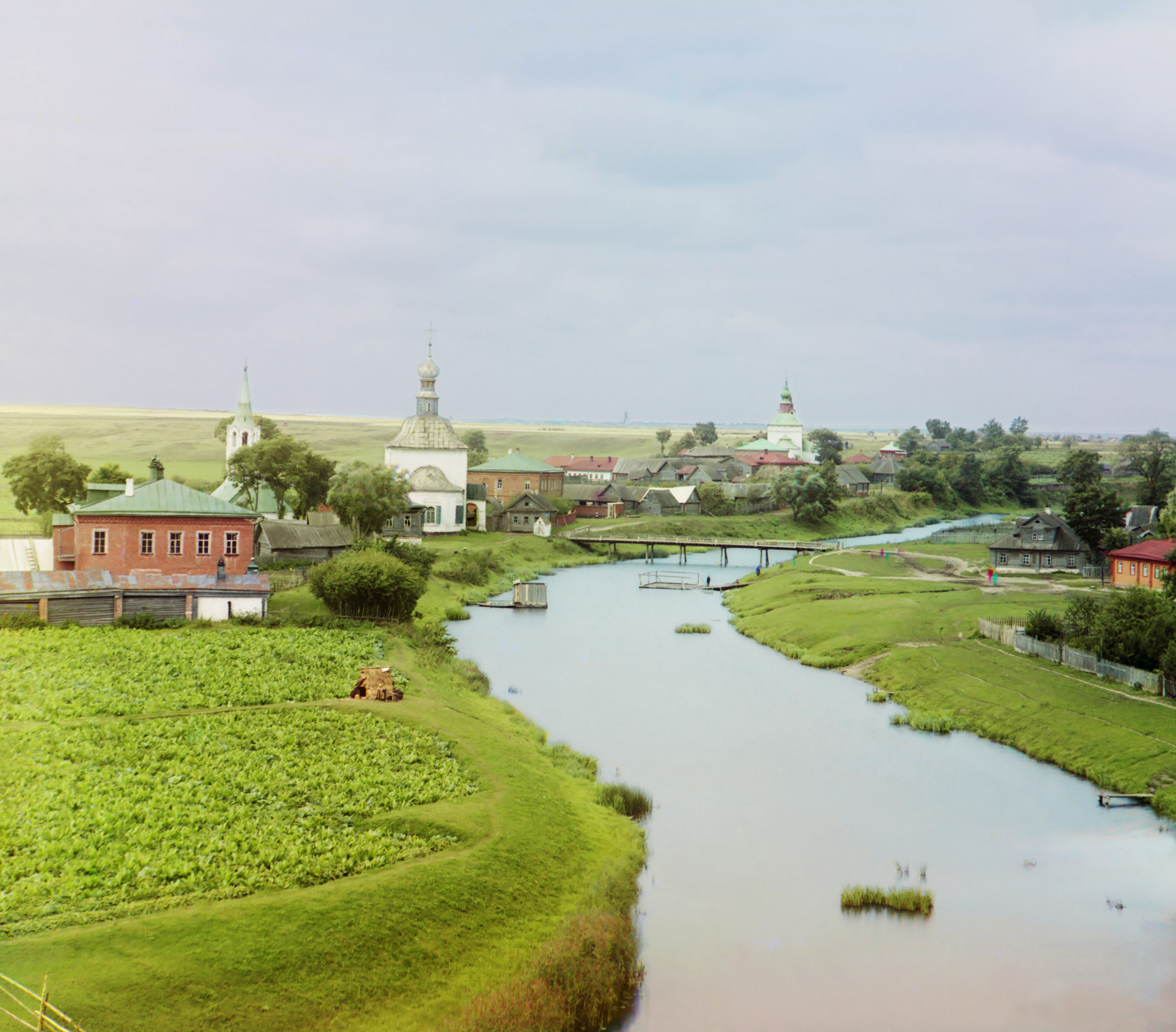 Original Description: View of Suzdal along the Kamenka River.